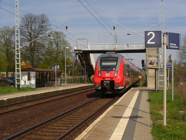 Bahnhof Marquardt (Marquardt Railway Station)